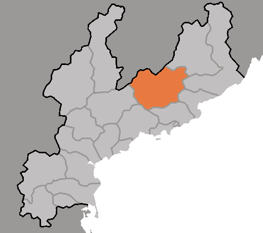 Map of Toksong, Hamgyong-namdo, DPRK, 2006